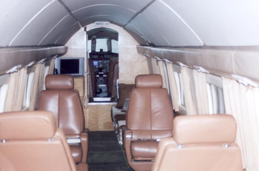 Executive interior of Howard 500 (Lockheed PV-2 conversion)